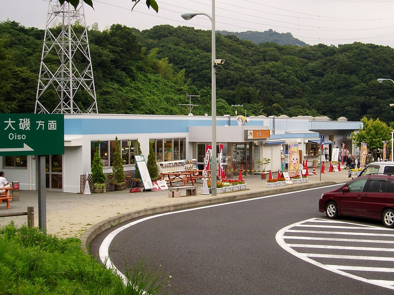 Shop of Oiso Perking Area